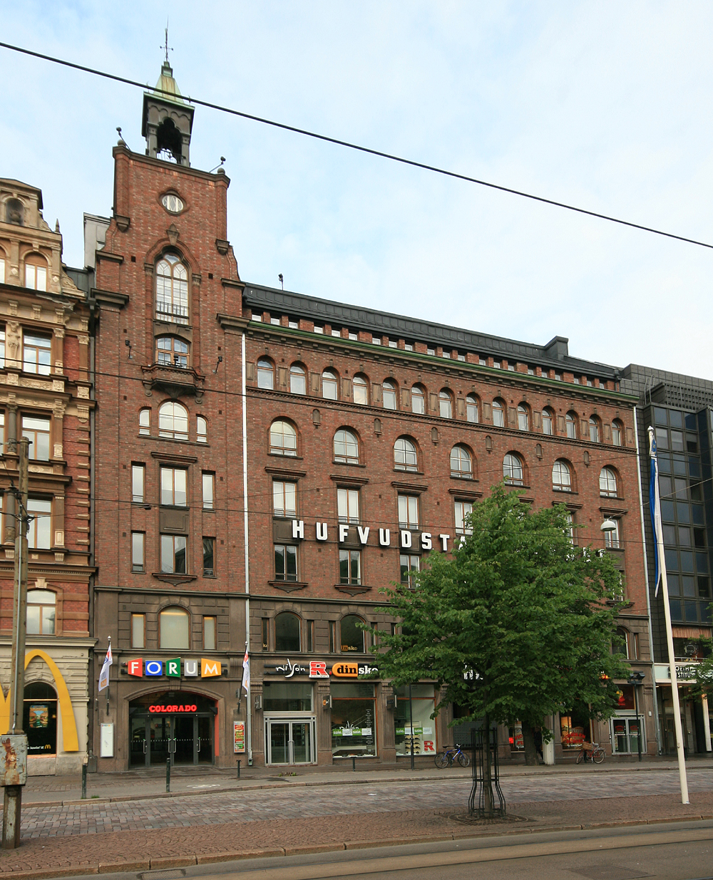 Mannerheimintie 18, Helsinki. Main office of the newspaper Hufvudstadsbladet. Built 1923, architect Wäinö G. Palmqvist.